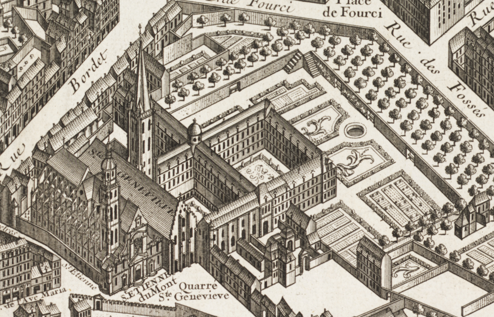 Abbaye Saint-Genevieve (now lycée Henri-IV) in Paris, 1739